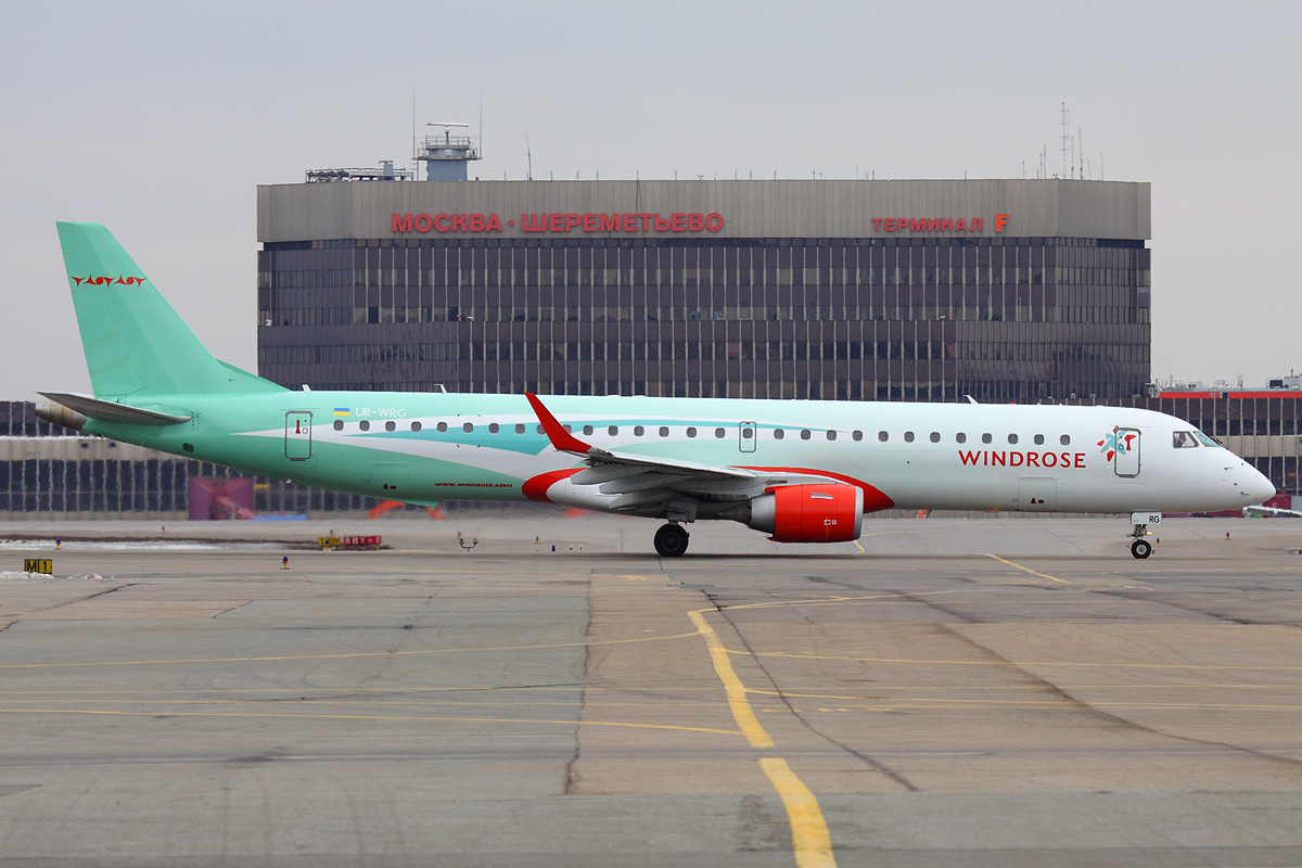 A Wind Rose Aviation Embraer ERJ-190-200LR 195LR at Sheremetyevo International Airport (SVO / UUEE)